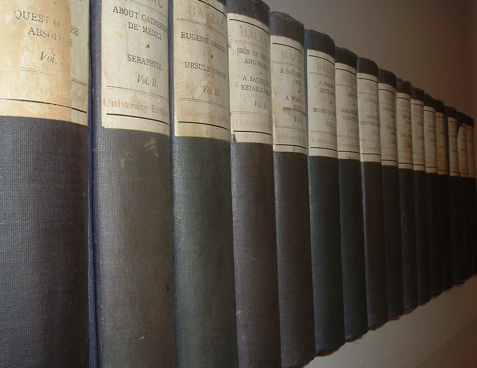 The 16-volume Works of Honoré de Balzac, including the entire Comédie humaine